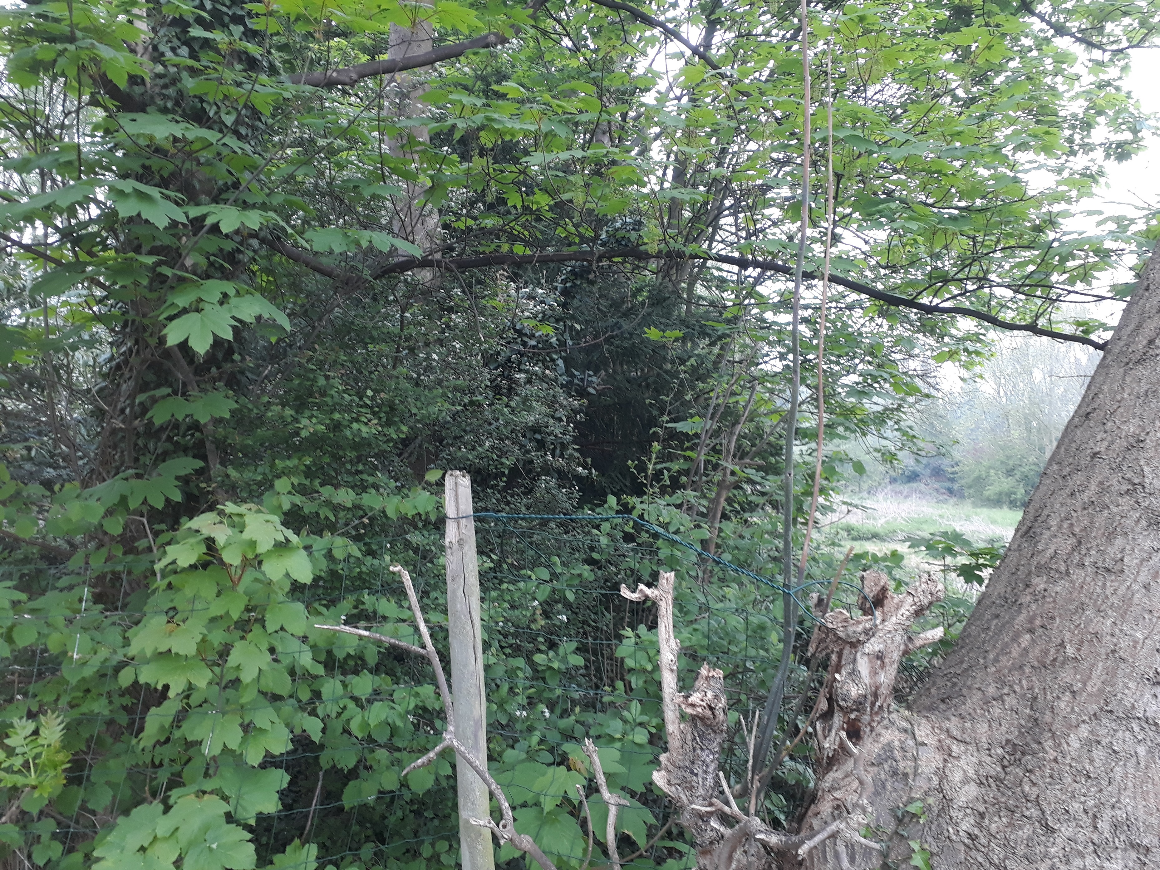 Vottem 44 f